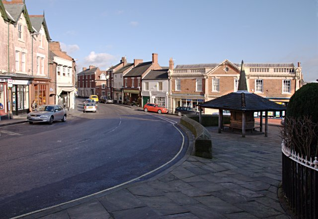 Market Place, Melbourne, Derbyshire